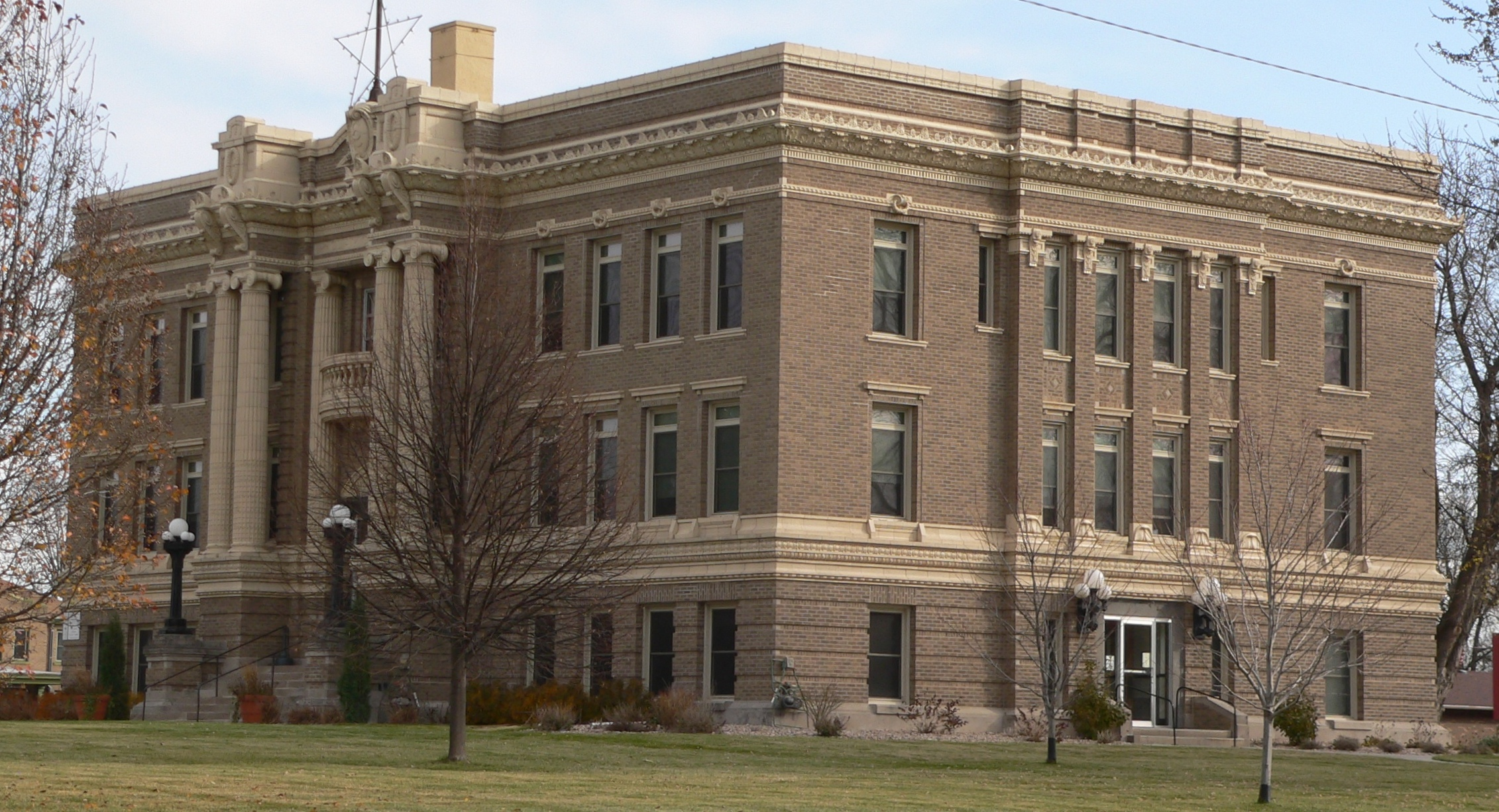 Clay County Courthouse in Clay Center, Nebraska, seen from the northwest. The building was designed in Beaux-Arts style by architect William F. Gernandt; the cornerstone was laid in 1918. The courthouse is listed in the National Register of Historic Places.